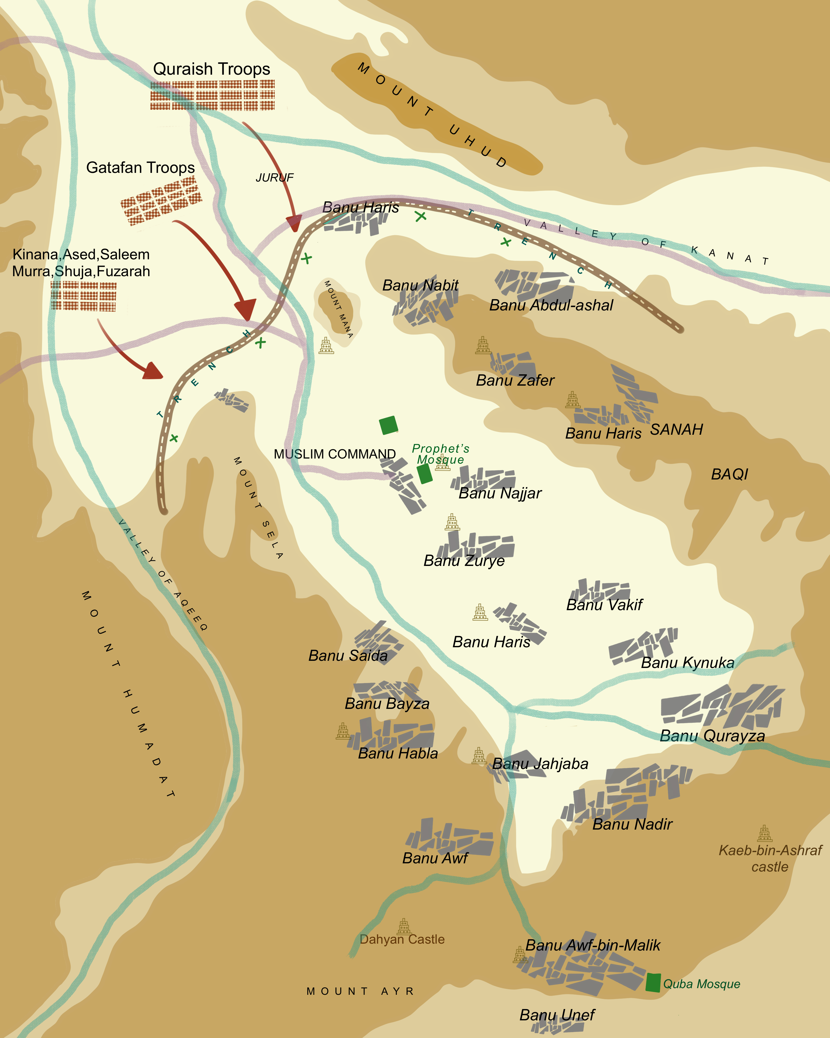 Battle of Trench of Medina with Meccans laying seige on yasthrib and the trench being a defense. Tribes,mosques,castles,roads,valleys,mountains and lava fields as well as enemy movements have been depicted.